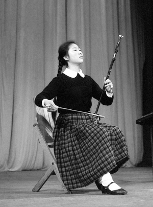 Erhu master Min Huifen in her youth